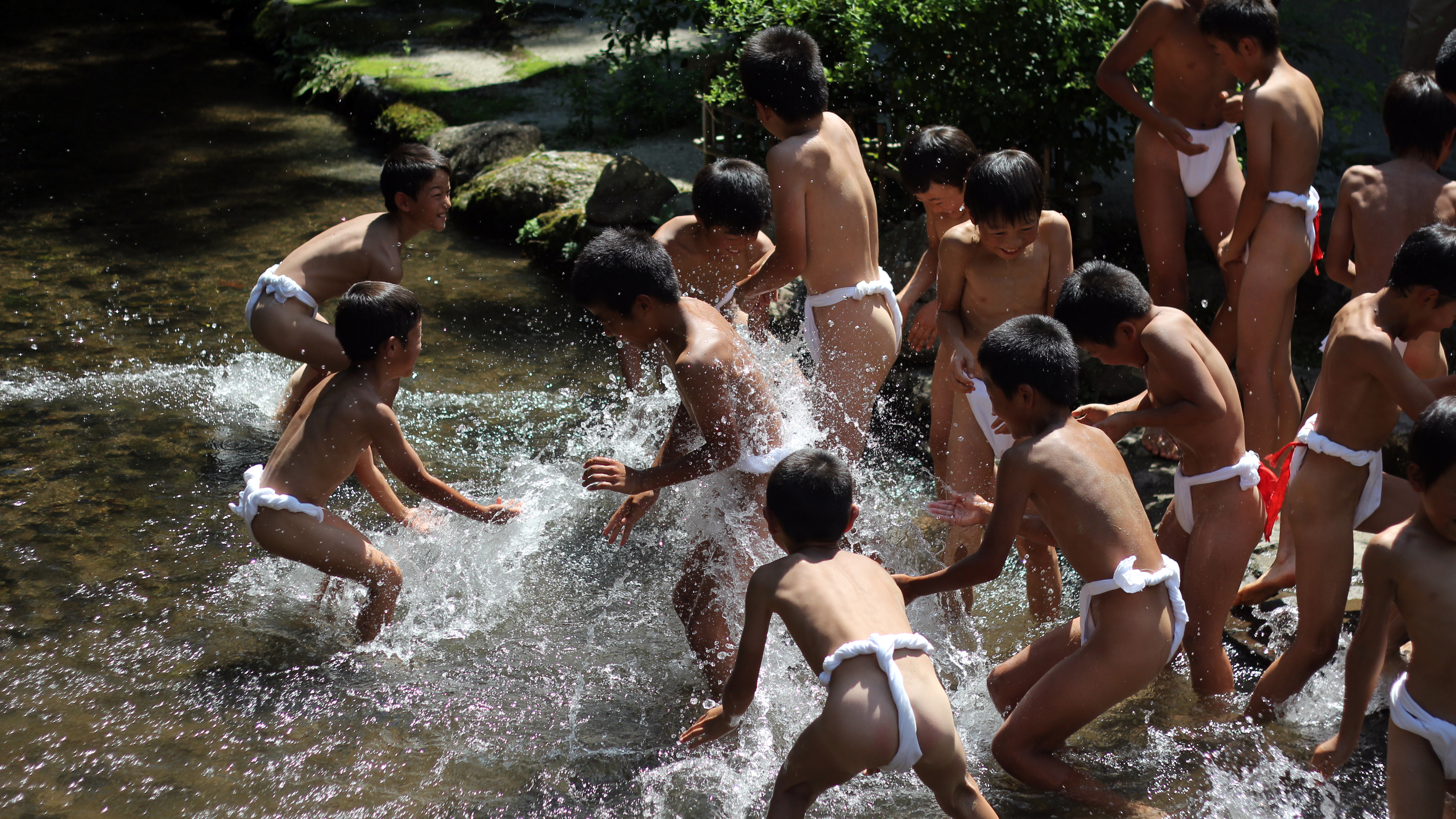 Purification ritual after a sumo event.